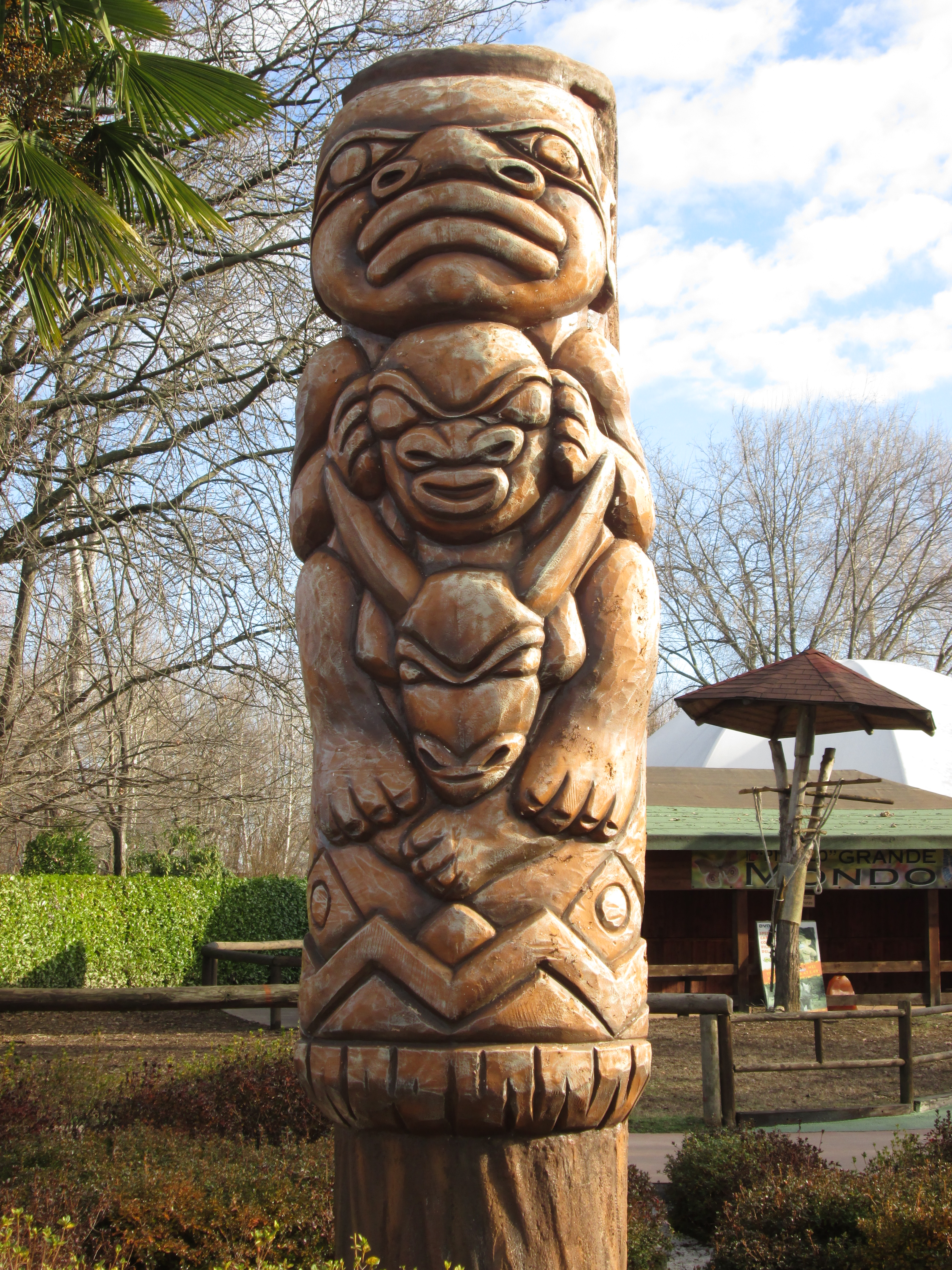 African Totem at Pombia Safari Park ITALY